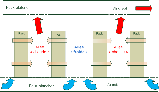 Datacenter cooling